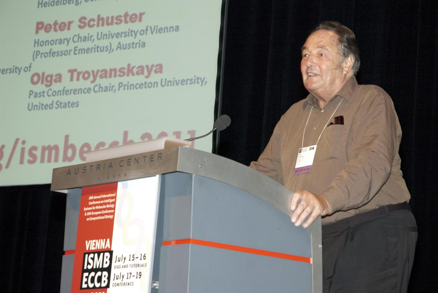 Peter Schuster, Conference Honorary Co-chair, University of Vienna, (Professor Emeritus), Austria